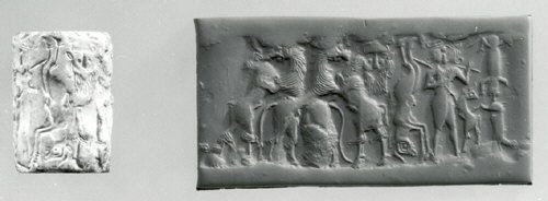 Cylinder seal and modern impression bull-man, bearded hero, and lion contest frieze,ca. 2600–2350 B.C. Early Dynastic III